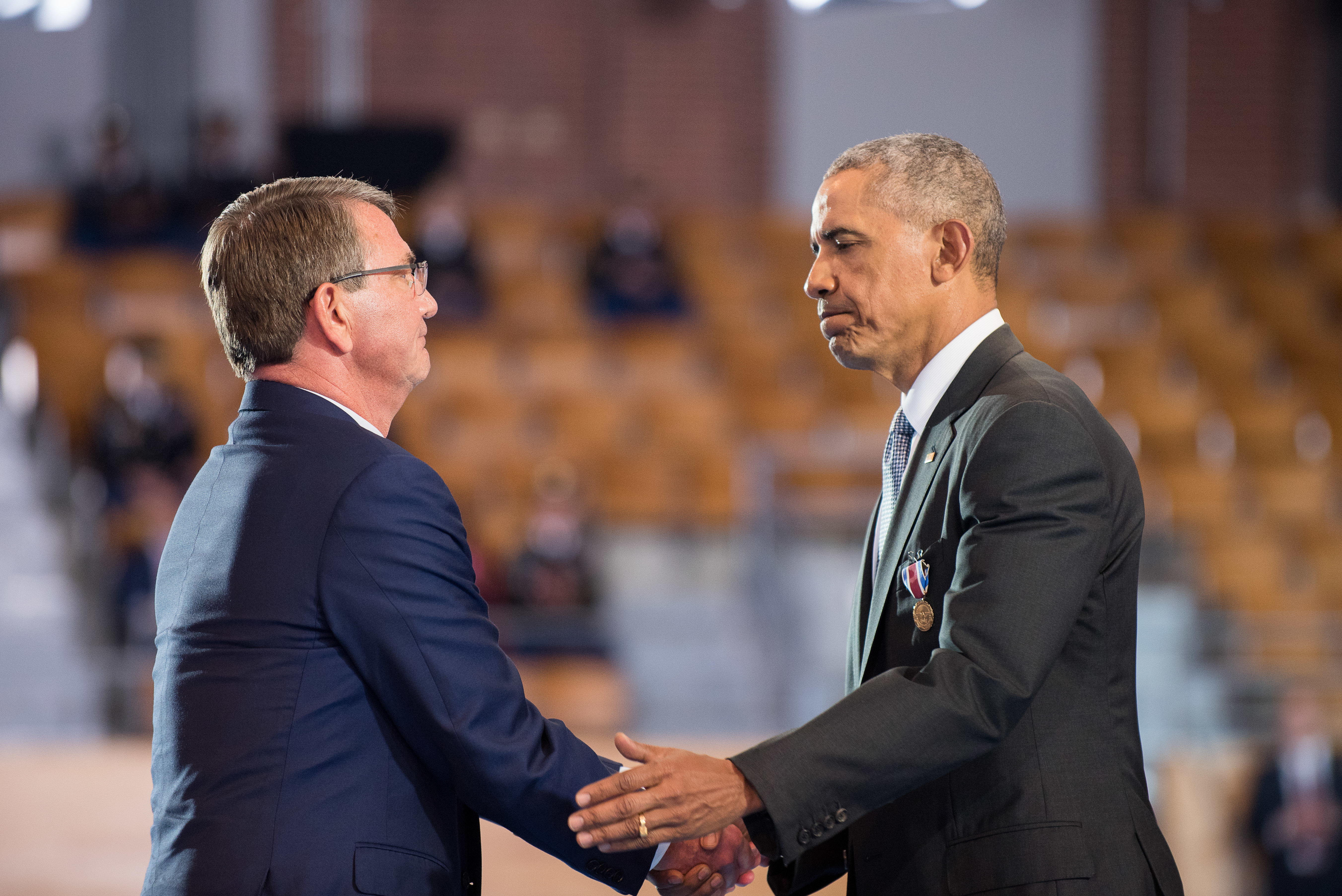 Defense Secretary Ash Carter awards the Honorable Barack H. Obama, 44th President of the United States, with the Department of Defense Medal for Distinguished Public Service during a Armed Forces full honor review farewell ceremony in Conmy Hall, Joint Base Myer-Henderson Hall, Va., on Jan. 4, 2017.